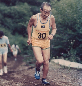 Seido Sasaki